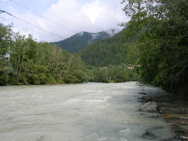 River Isel near Matrei with mouth of the river Tauernbach on the right side